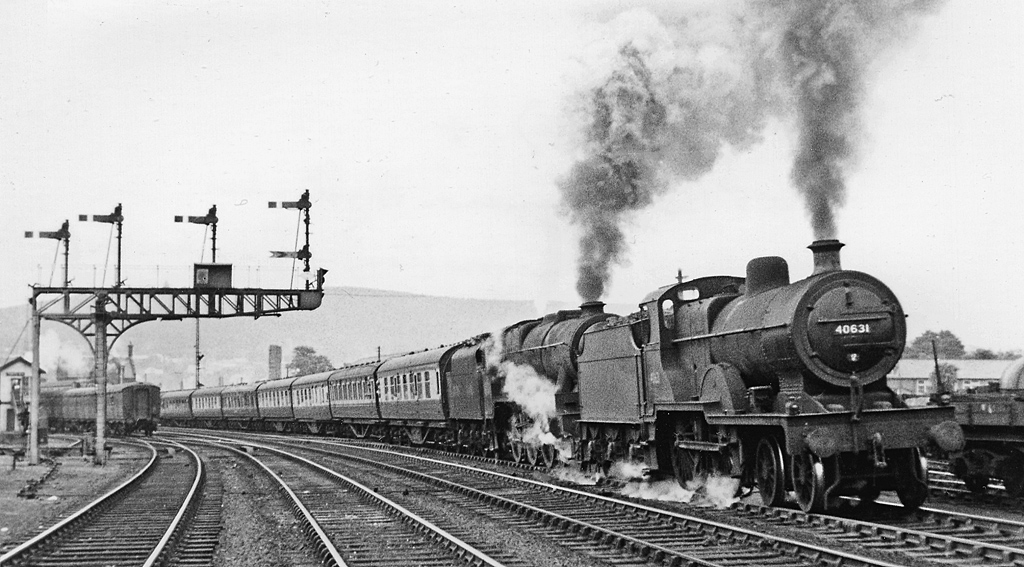 Up WCML express leaving Penrith. View northward, just south of Penrith station on the West Coast Main Line. The 13.45 express Glasgow (Central) to Manchester (Victoria) is blasting away and the firemen of both engines are stoking up for tackling the 10 miles at 1-in-120 up to Shap Summit. LMS 2P 4-4-0 No. 40631 is piloting rebuilt 'Royal Scot' 7P 4-6-0 No. 46105 'Cameron Highlander'. The lines on the left led to Keswick, Cockermouth and Workington.